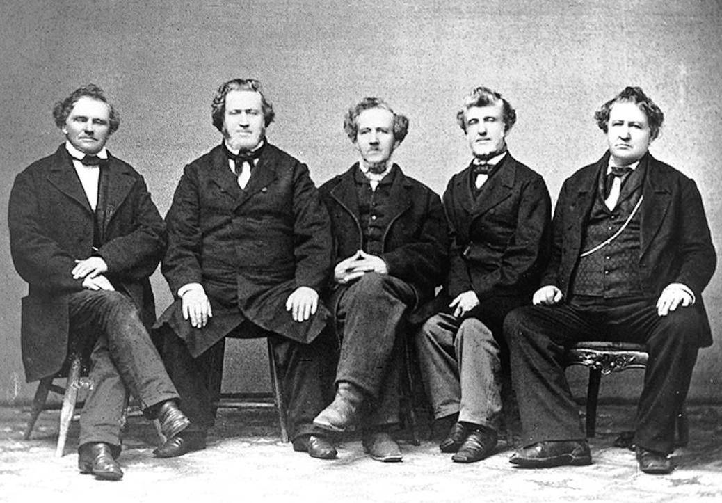 Photo of the five sons of John and Nabby Young. From left to right: Lorenzo Dow Young (1807-1895), Brigham Young (1801-1877), Phineas Howe Young (1799-1879), Joseph Young (1797-1881), and John Young (1791-1870).